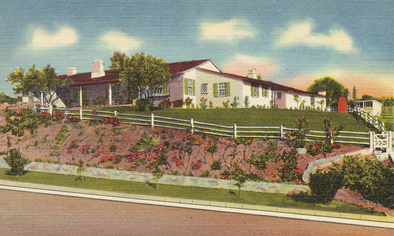 File name: 06_10_010284 Title: Home of Jane Withers, Westwood, California Date issued: 1930 - 1945 (approximate) Physical description: 1 print (postcard) : linen texture, color ; 3 1/2 x 5 1/2 in. Genre: Postcards Subject: Houses Notes: Title from item. Collection: The Tichnor Brothers Collection Location: Boston Public Library, Print Department Rights: No known restrictions